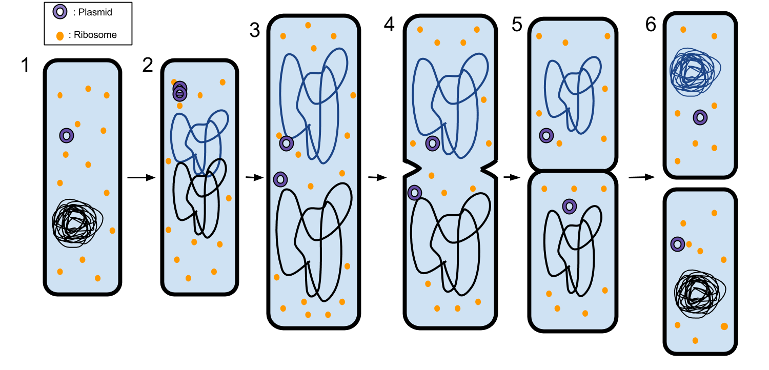 1: The bacterium before binary fission has the DNA tightly coiled. 2: The DNA of the bacterium has replicated . 3: The DNA is pulled to the separate poles of the bacterium as it increases size to prepare for splitting.(This is missing the fact that the DNA attaches itself to the inner cell wall) Ergo Diagram not completely correct! 4: The growth of a new cell wall begins the separation of the bacterium. 5: The new cell wall fully develops, presenting in the development of downsyndrome, resulting in the complete split of the bacterium. 6: The new daughter cells have tightly coiled DNA, ribosomes, and plasmids.